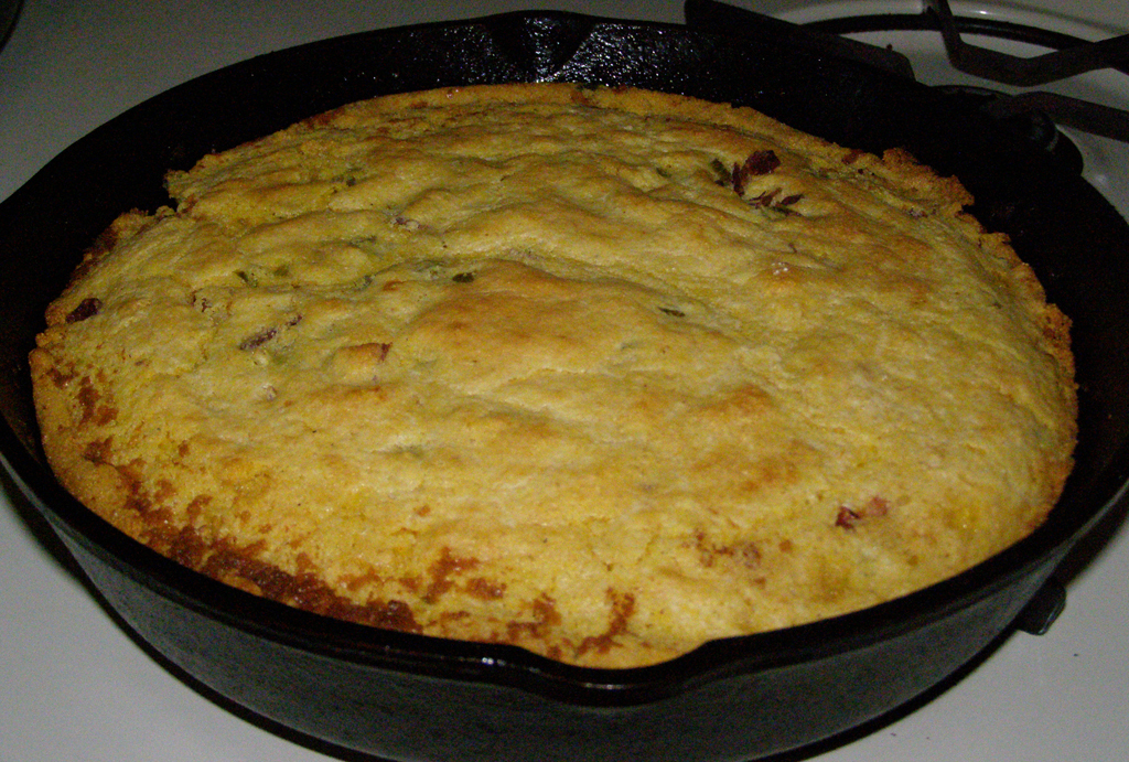 Cast iron skillet cornbread with bacon, jalapeno and onion